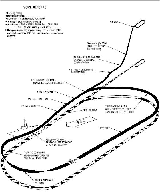 Graphic showing the basic Instrument Flight Rules approach to US aircraft carriers.